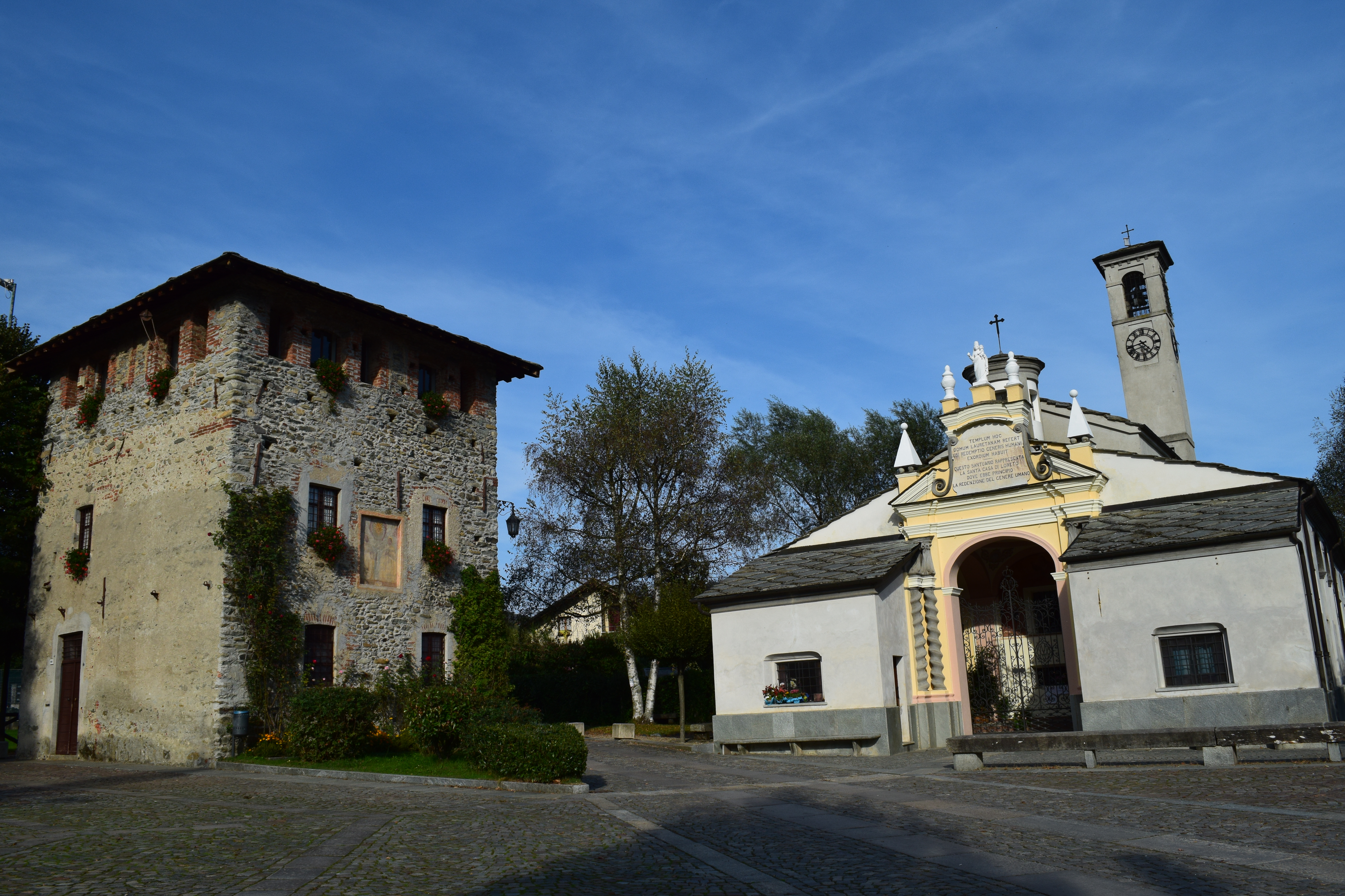 Panoramical view of the Loreto's Sanctuary in Lanzo Torinese with, on the left, the medieval tower, house of the "eremita". This is a photo of a monument which is part of cultural heritage of Italy.